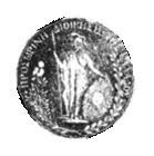 The seal of the provisional government of Greece, 1822-1827. From the Appendices to the Provisional Constitution of Greece of 1822: "The seal of the Government will bear as identifying insigne Athena together with the symbols of wisdom»